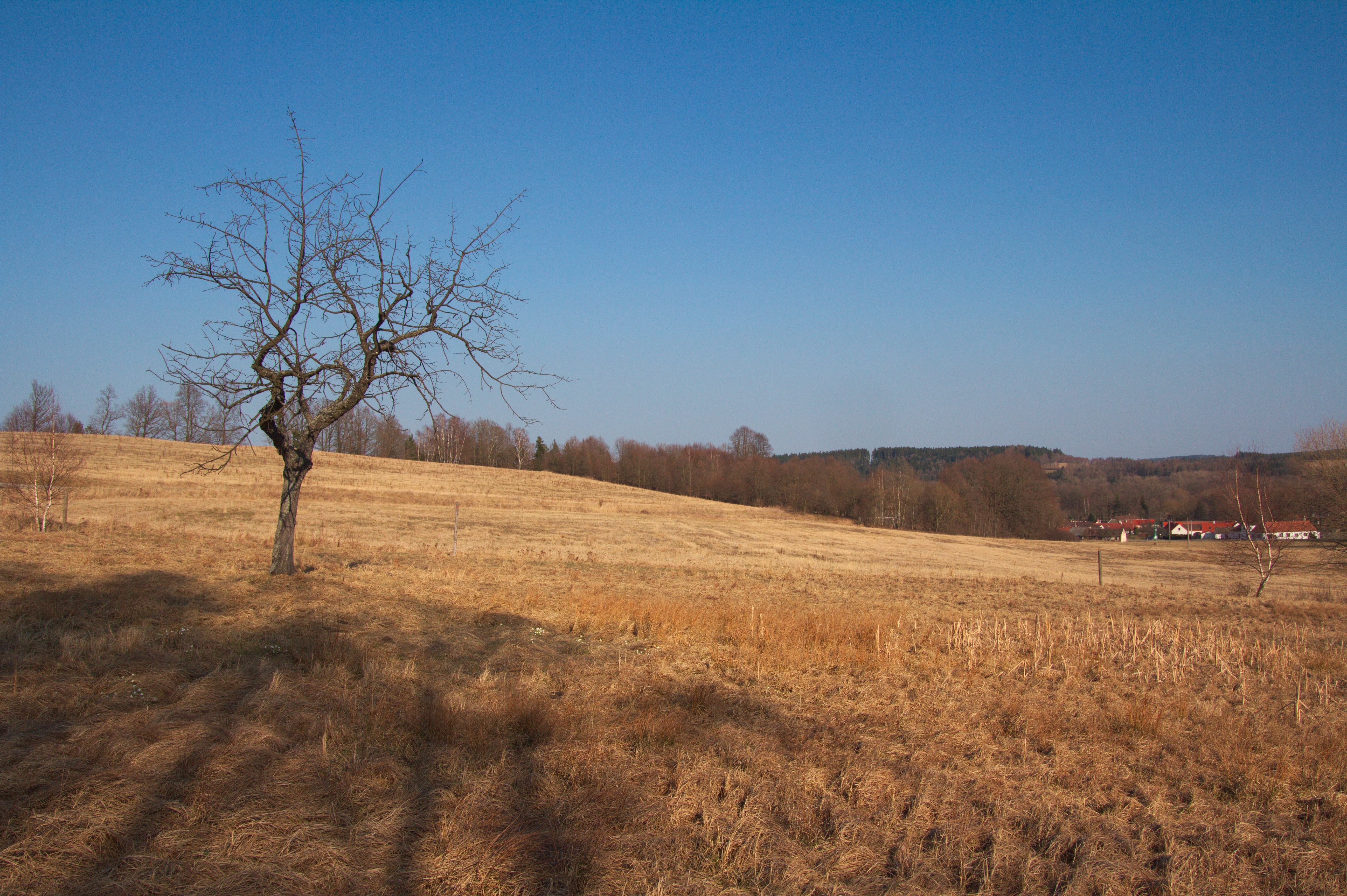 Natural monument Pašínovická louka in České Budějovice District, Czech Republic